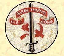 This insignia was designed by American MACV-SOG in the name of the Sacred Sword of the Patriots League, a fictional North Vietnamese liberation organization. The message reads. The implication is that soldiers should defect to the SSPL or to South Vietnam. The Woman tells an officer: "This soldier has malaria and is almost cured but wants to return to the Army." The General Responds: "He has pretended to have malaria three times and he is faking it now. He needs to confess to the committee"